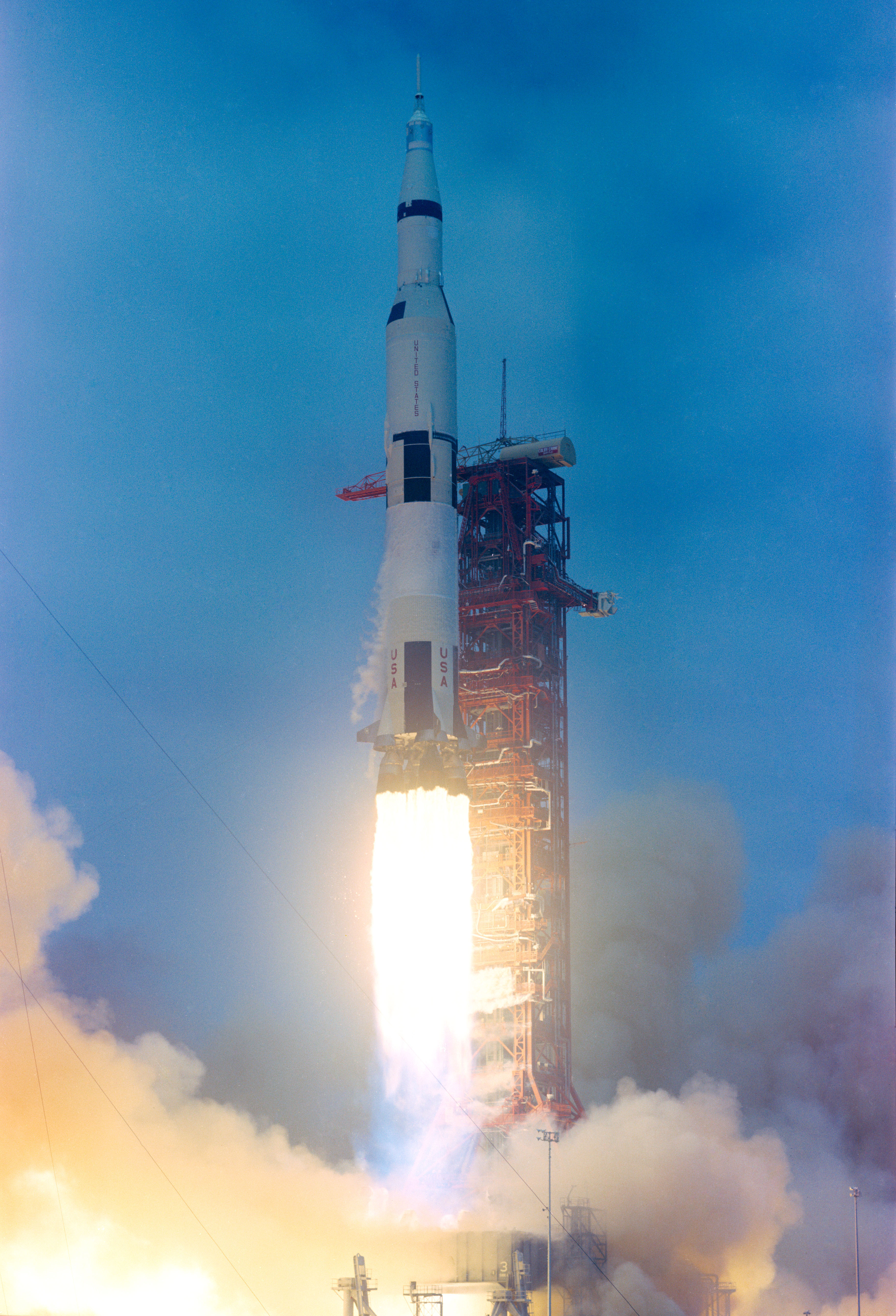 The Apollo 10 (Spacecraft 106/Lunar Module 4/Saturn 505) space vehicle is launched from Pad B, Launch Complex 39, Kennedy Space Center at 12:49 p.m. (EDT).